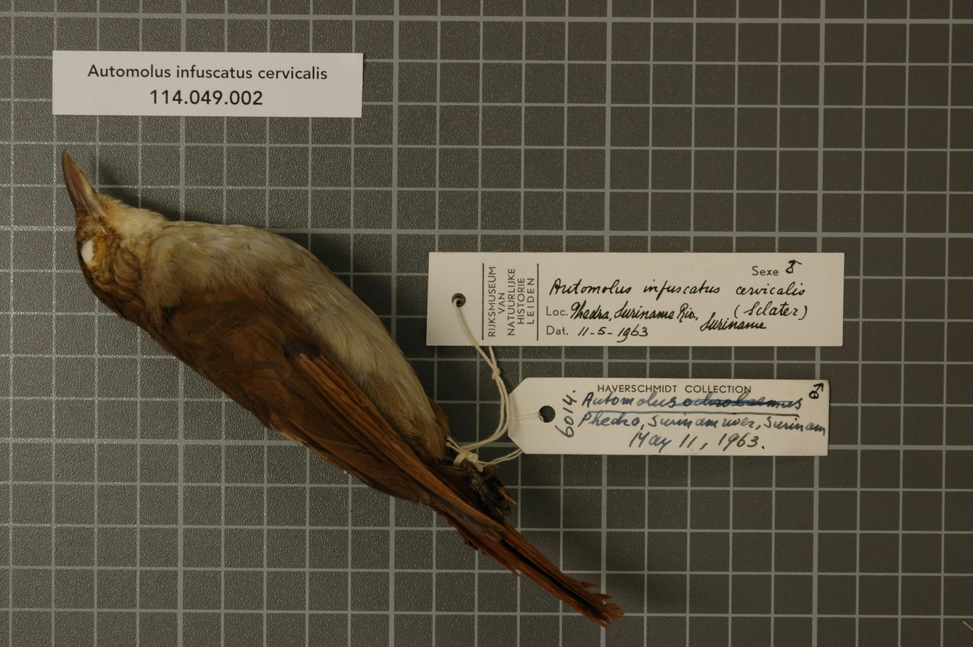 Automolus infuscatus cervicalis (Sclater, 1889